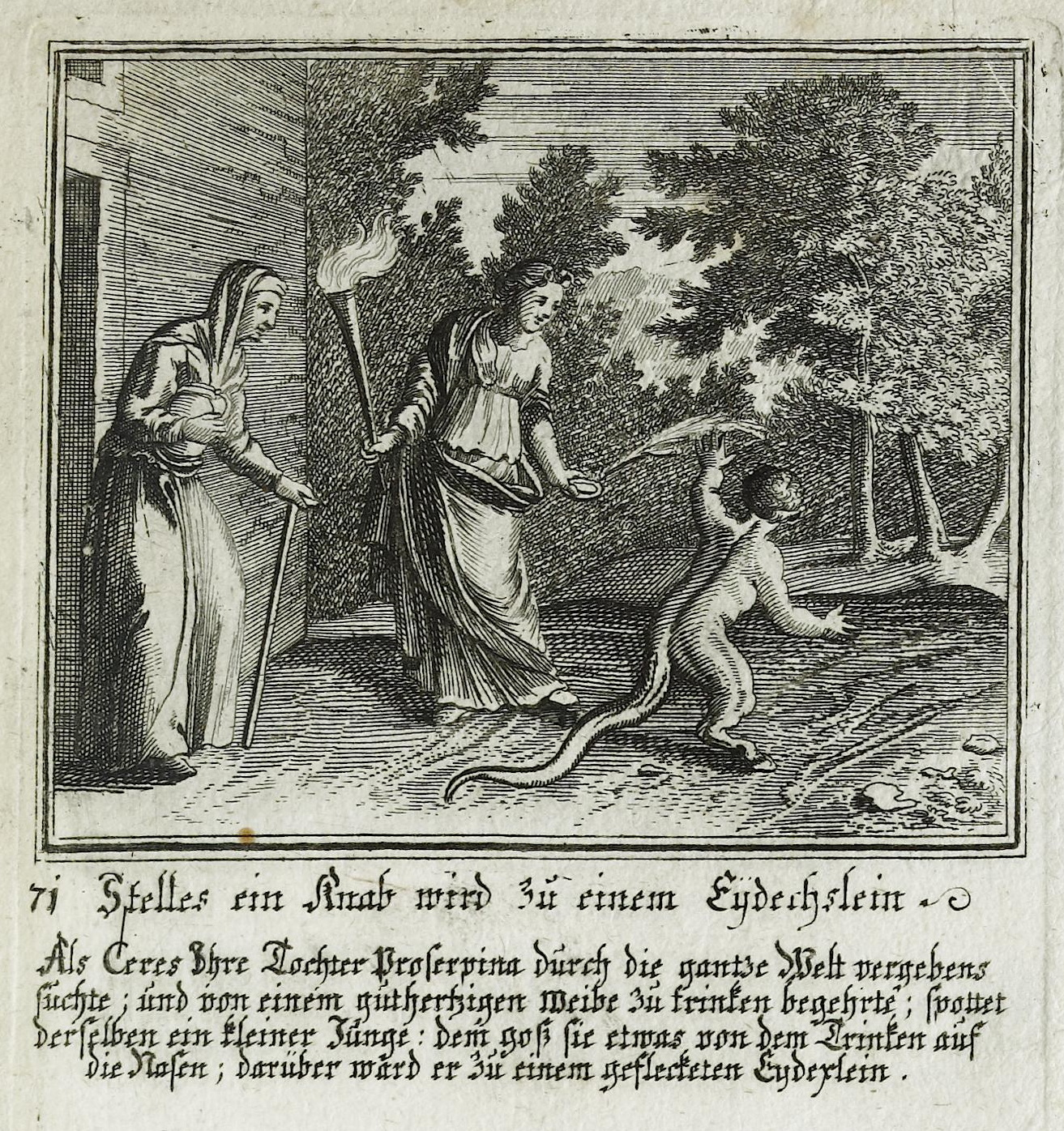 Ceres is mocked by a boy, which is turned into a star lizard (Ovid. Met. V, 449ff). Engraving by Johann Ulrich Krauß, 1690.